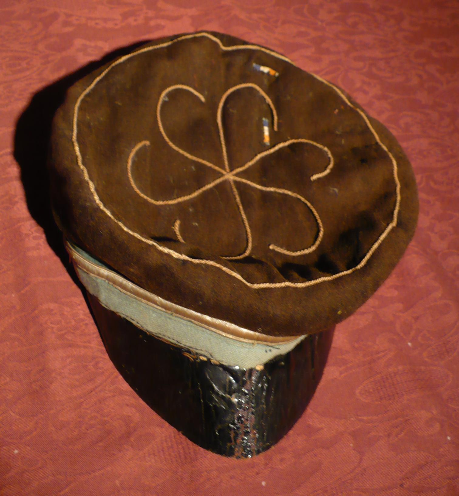 Corporation Sarmatia - cap - 1930